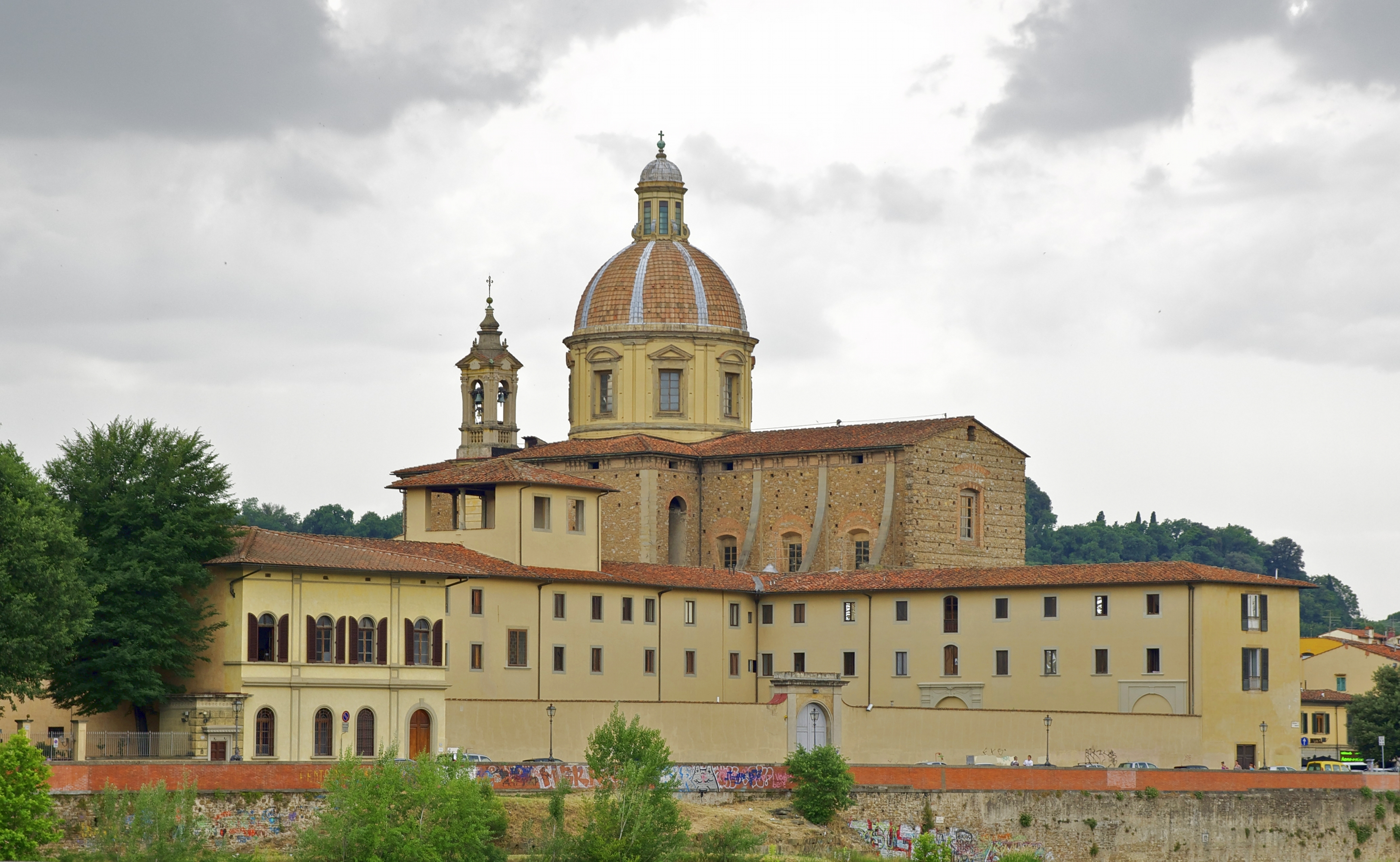 The achiepiscopal seminary of Florence, seen from the other bank of Arno river.